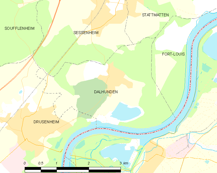 Map of French municipality